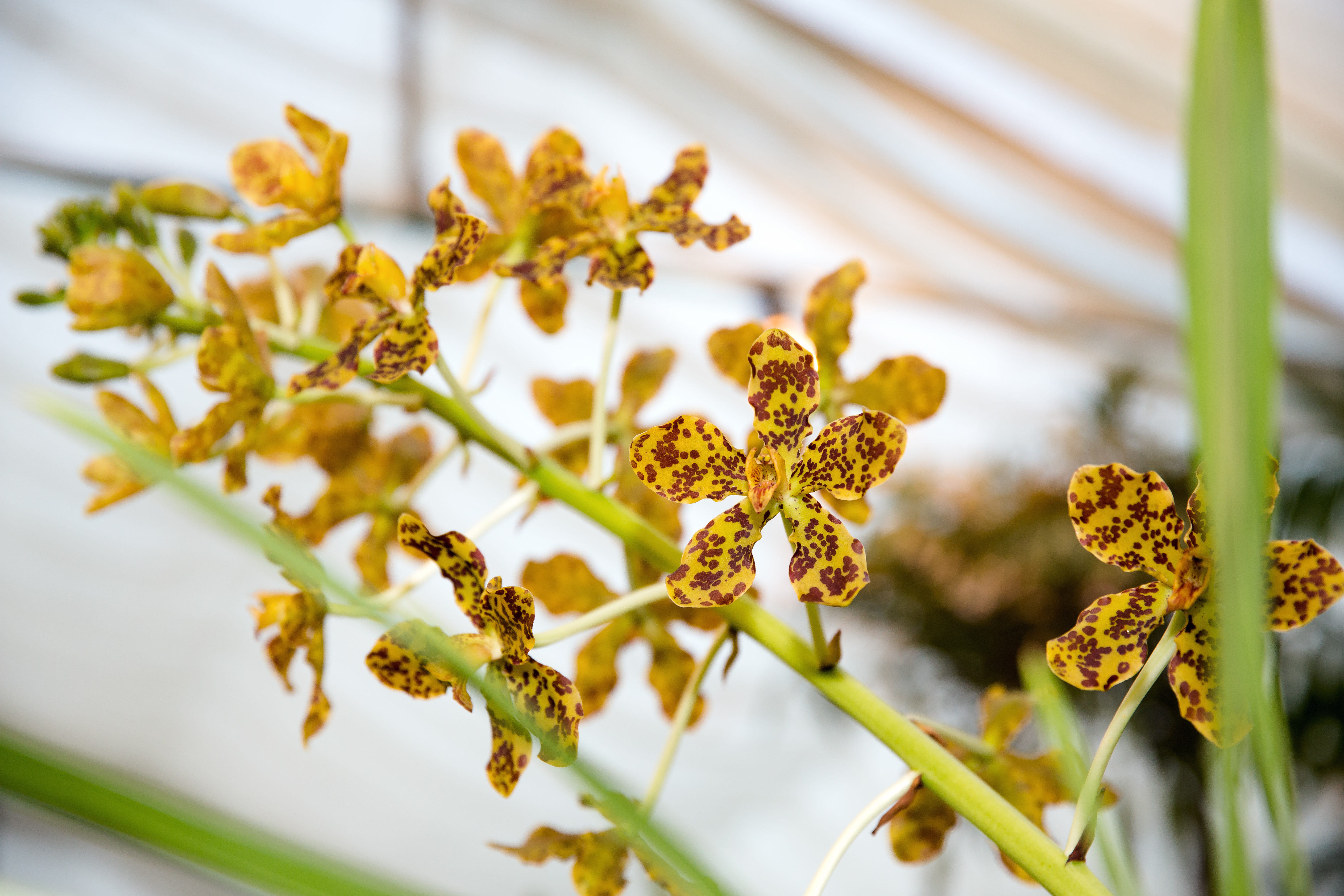 Grammatophyllum speciosum - International Exhibition of Orchids and Tillandsia at Blumengärten Hirschstetten in Vienna, Austria.